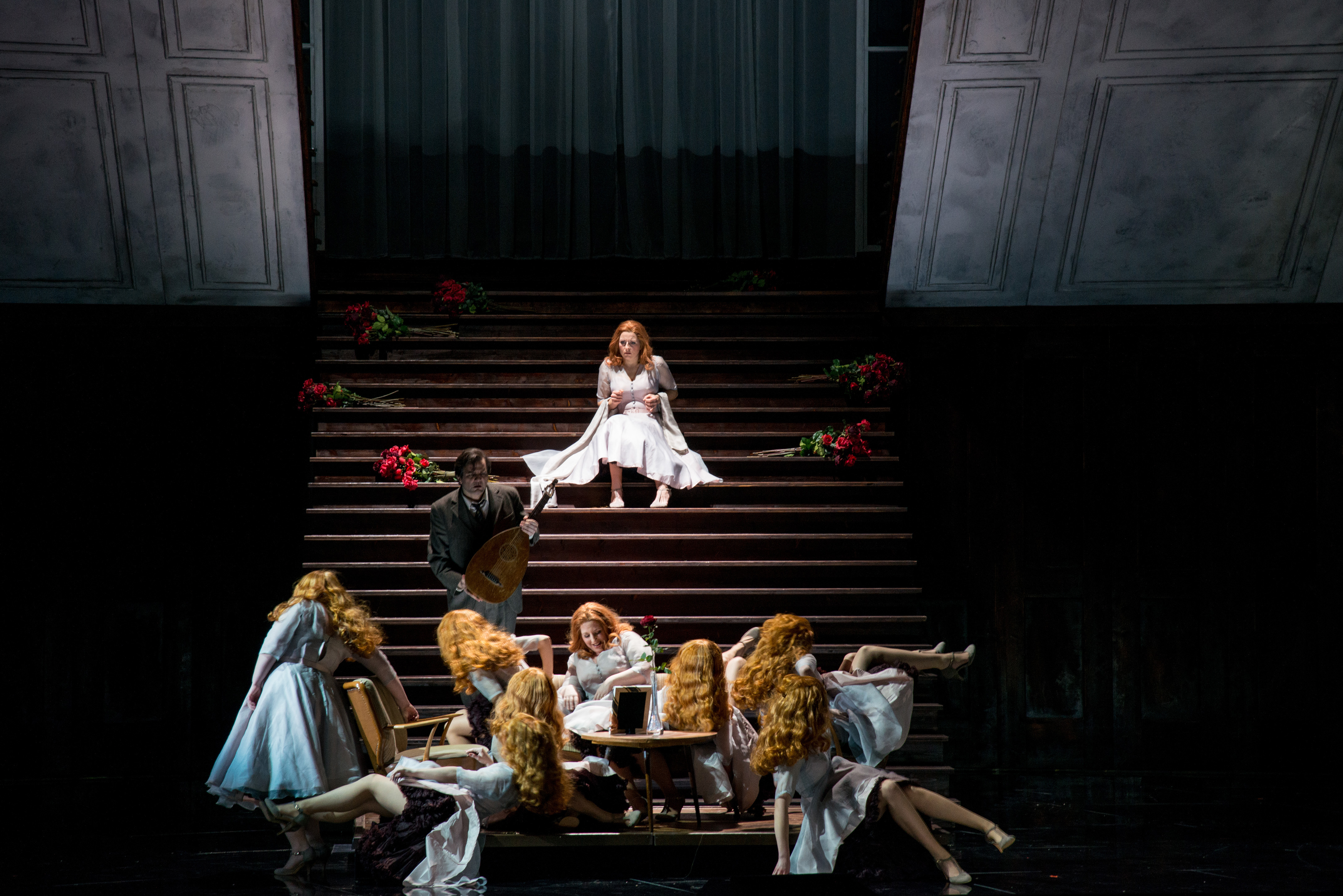 Graz Opera House